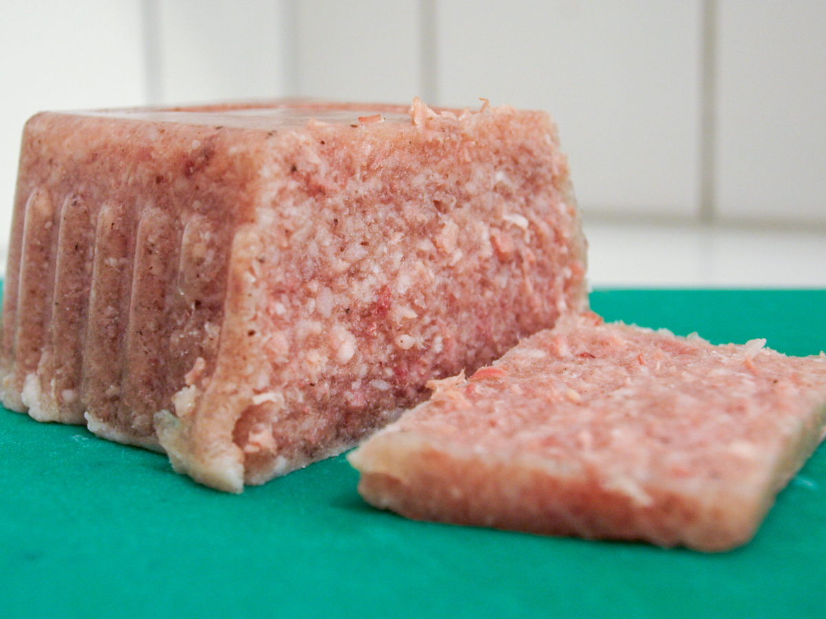 Kalvsylta - Swedish food